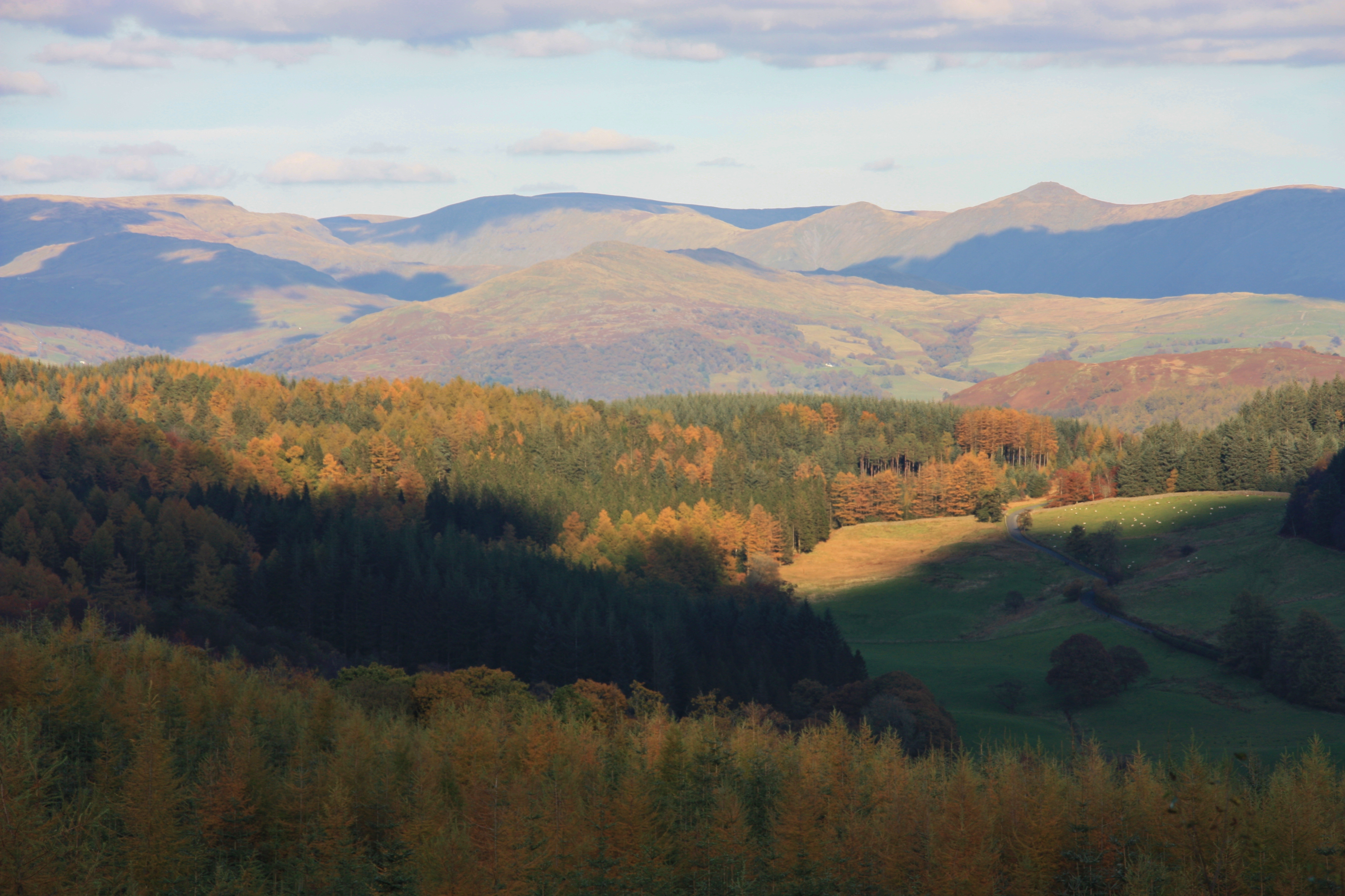 Autumn colours and cloud shadows at Grizedale Forest - looking in an approximate northeast/north direction